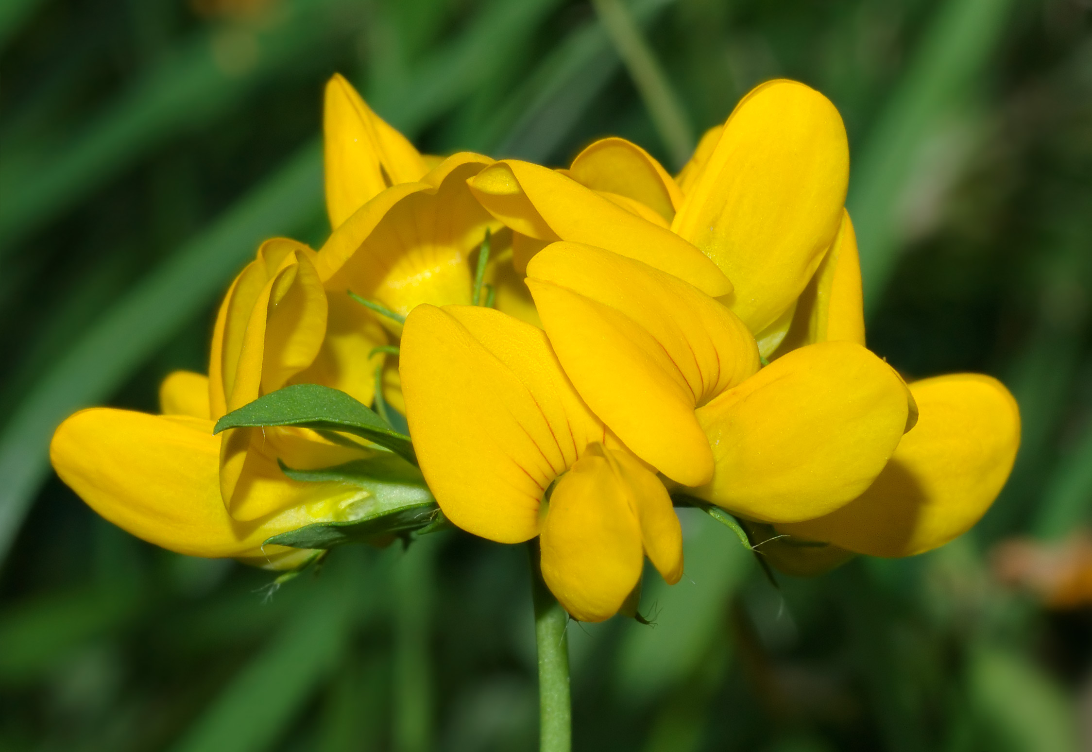 This image shows a blossom close-up of a Lotus pedunculatus plant.